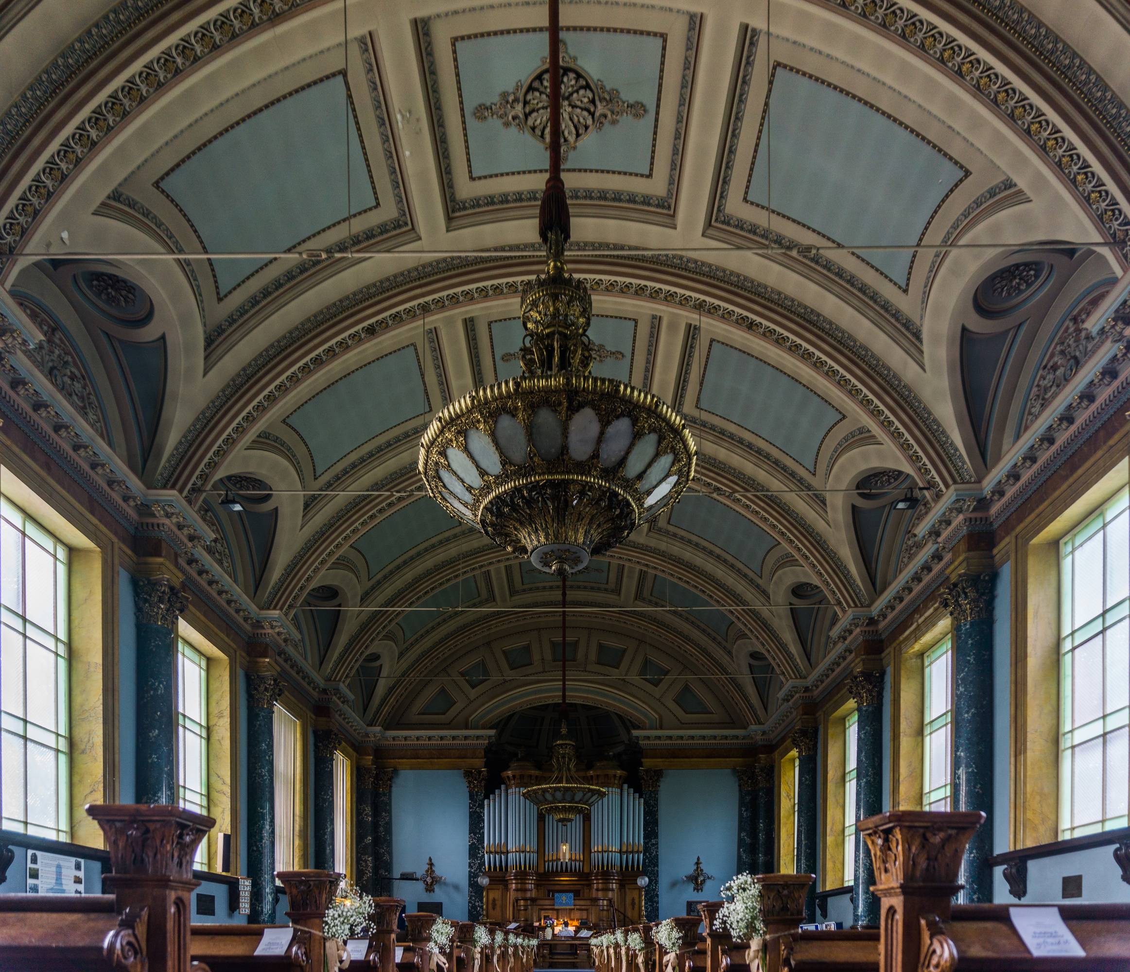 Congregational Church (including Salt Family Mausoleum To South) Wikidata has entry Q17526589 with data related to this item.